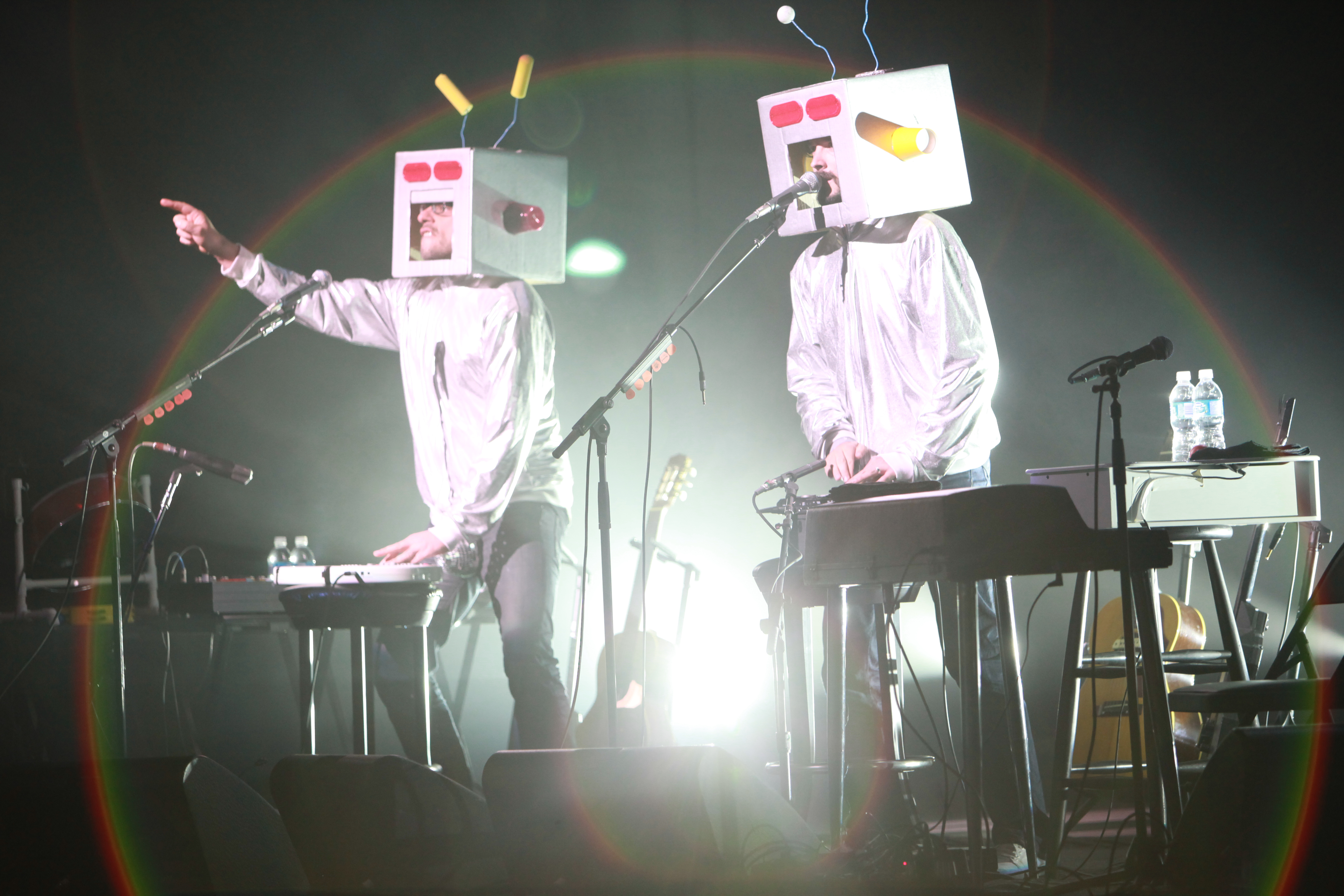 Flight of the Conchords at the Vogue in 2009. Shot by Kris Krug.